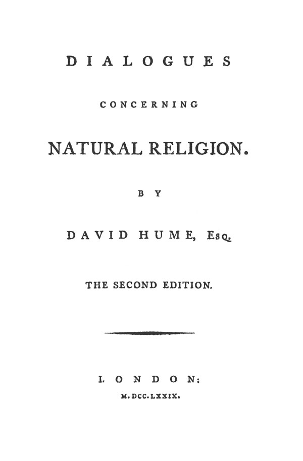 Title page of book in public domain